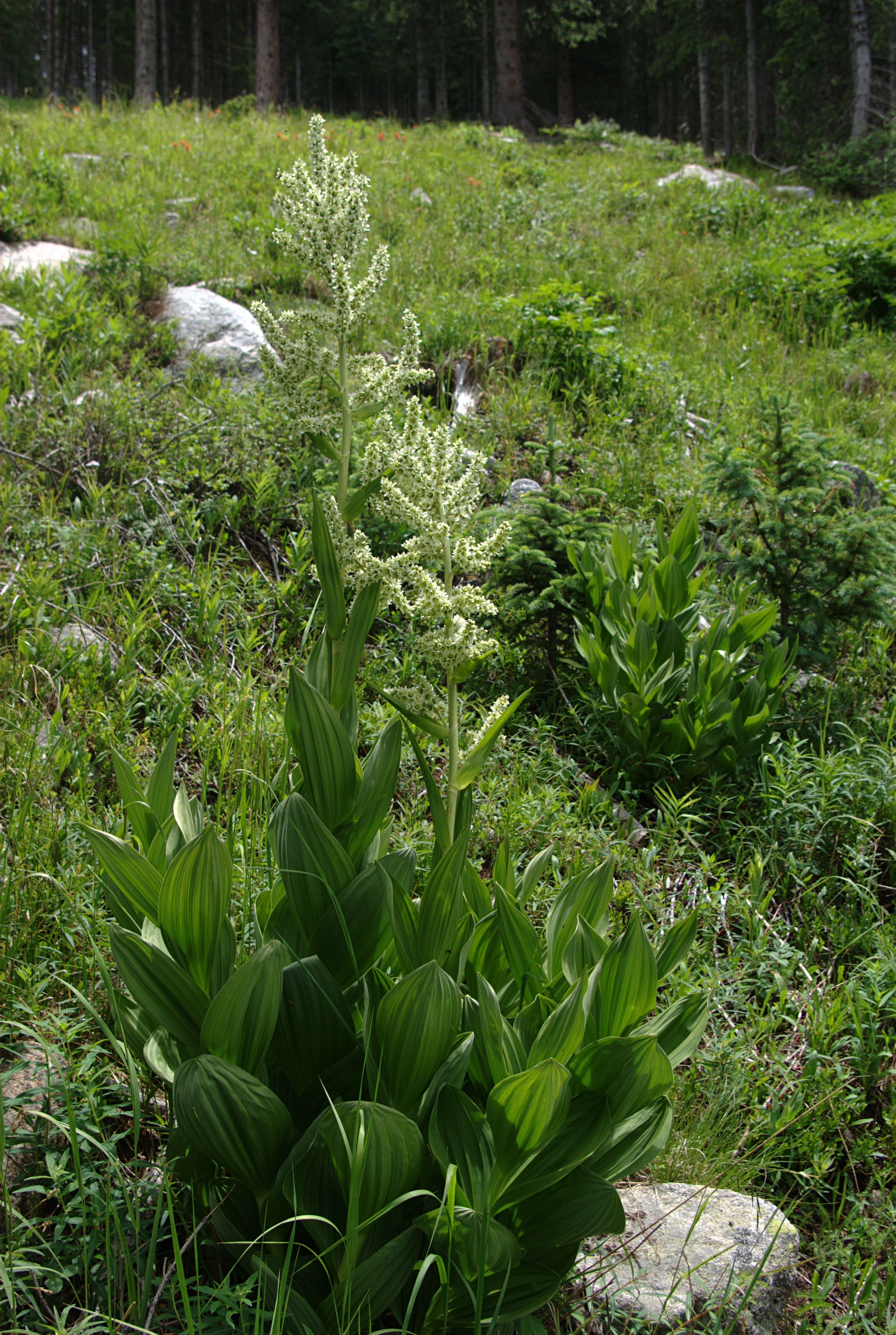 Corn lily, Veratrum californicum, Santa Fe Ski Basin, near Santa Fe, New Mexico. A little unsharp mask.